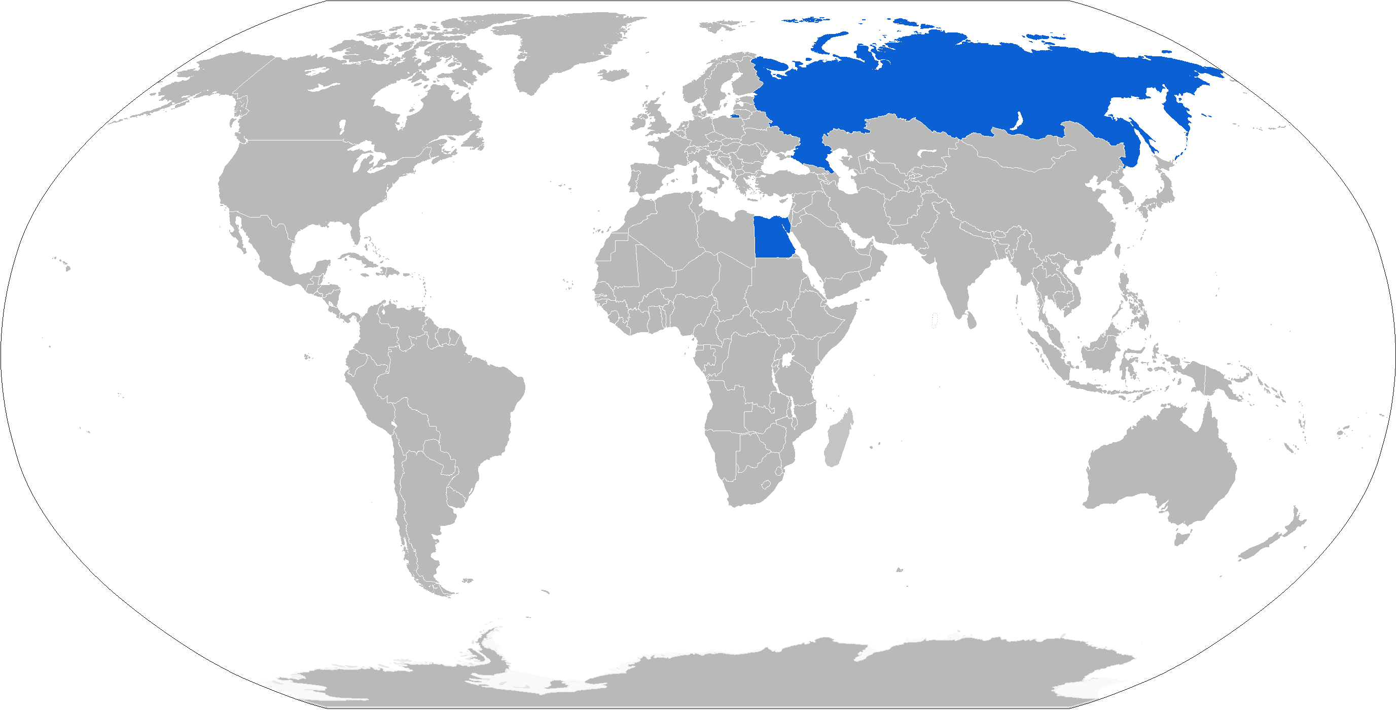 Map with Kamov Ka-50 and Ka-52 operators in blue